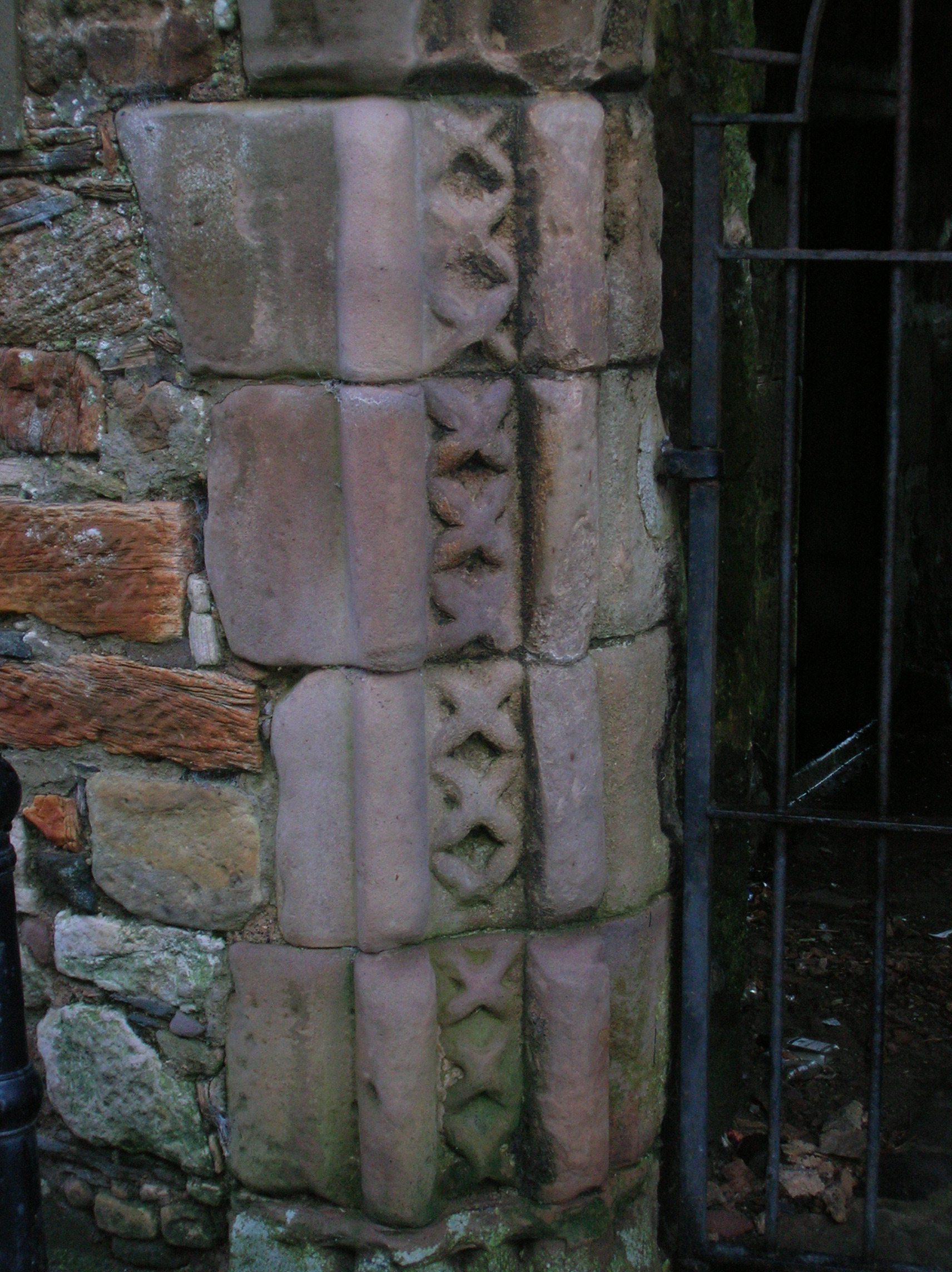 Seagate Castle, mouldings on entrance doorway. Irvine, North Ayrshire, Scotland